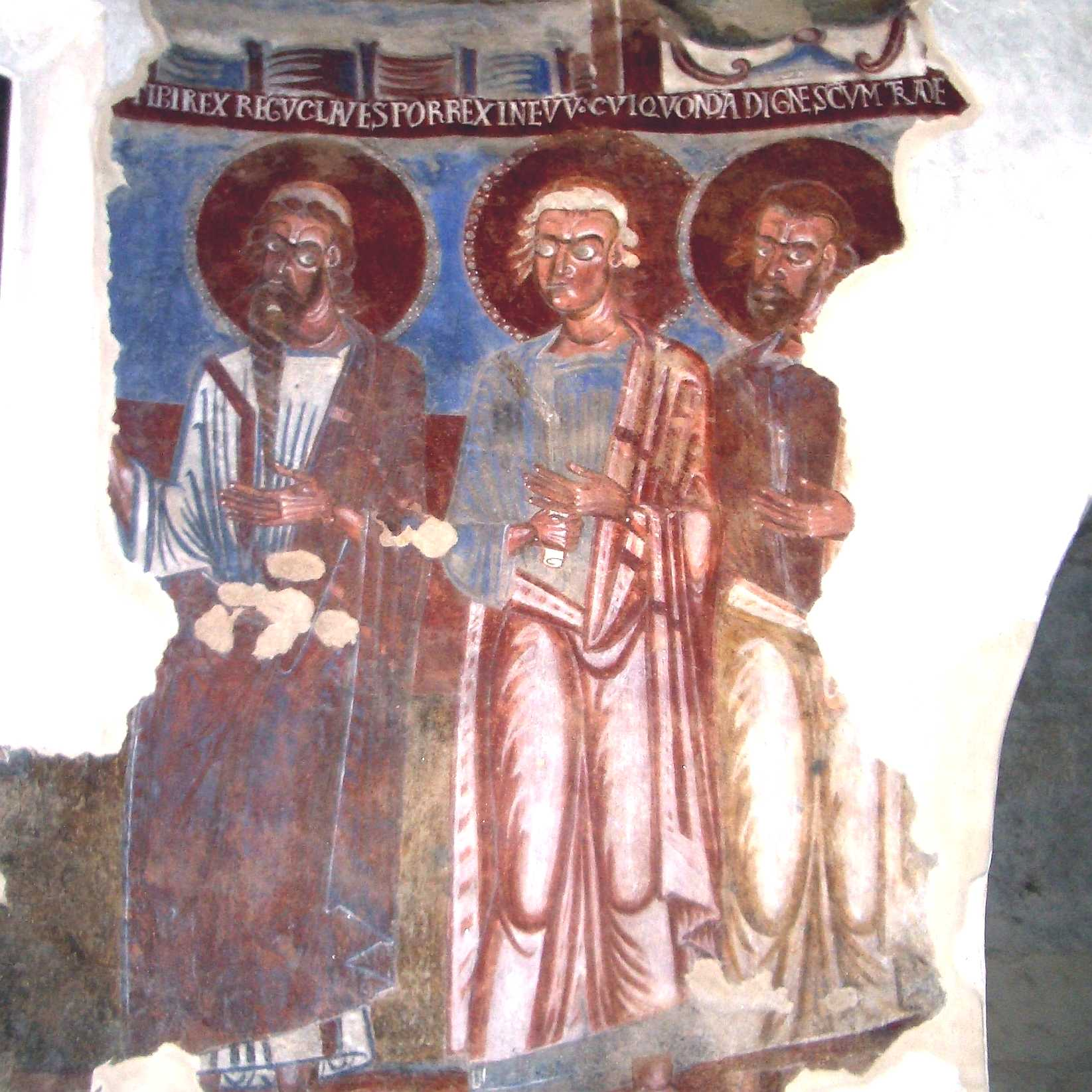 Painter of the XII century, Apostles, Ancient church of St Peter, Carpignano Sesia, Novara, Italy